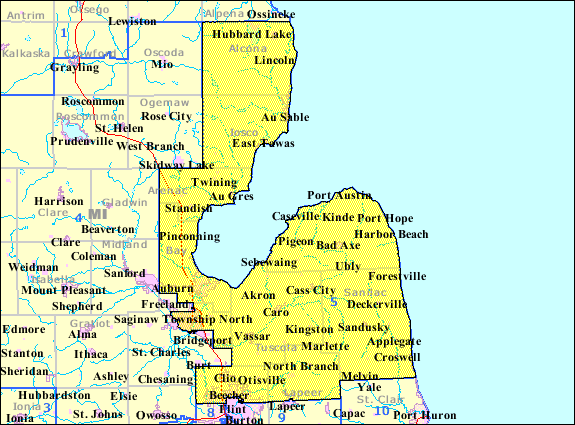 Map of Michigan's 5th congressional district for the en:106th United States Congress, illustrating boundaries prior to redistricting in 2002.